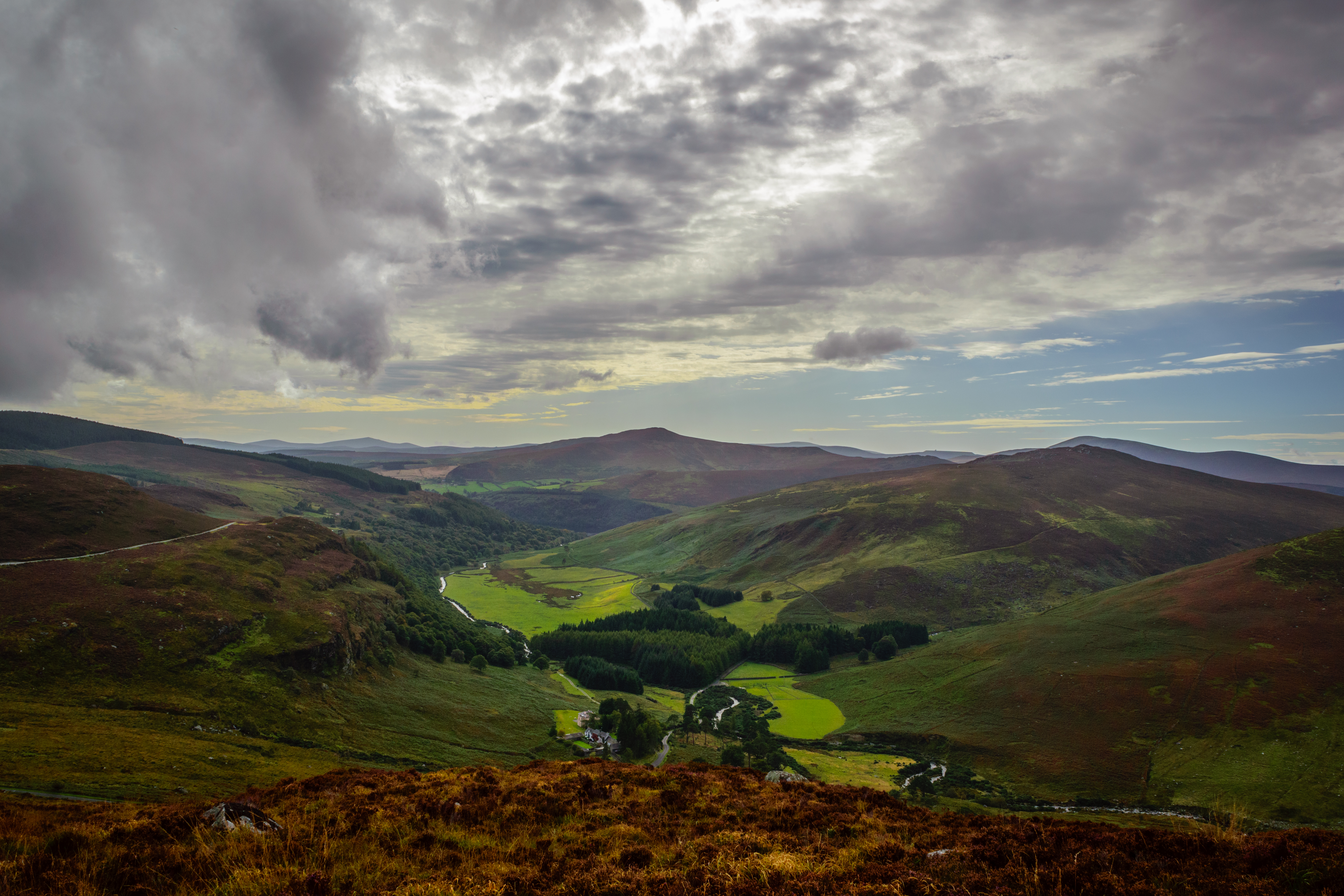 Looking down on the Cloghoge River in the Luggala Estate from the R759 Road. The dwellings visible are not Luggala Lodge but other dwellings on the Estate at teh Cloghoge River bridge